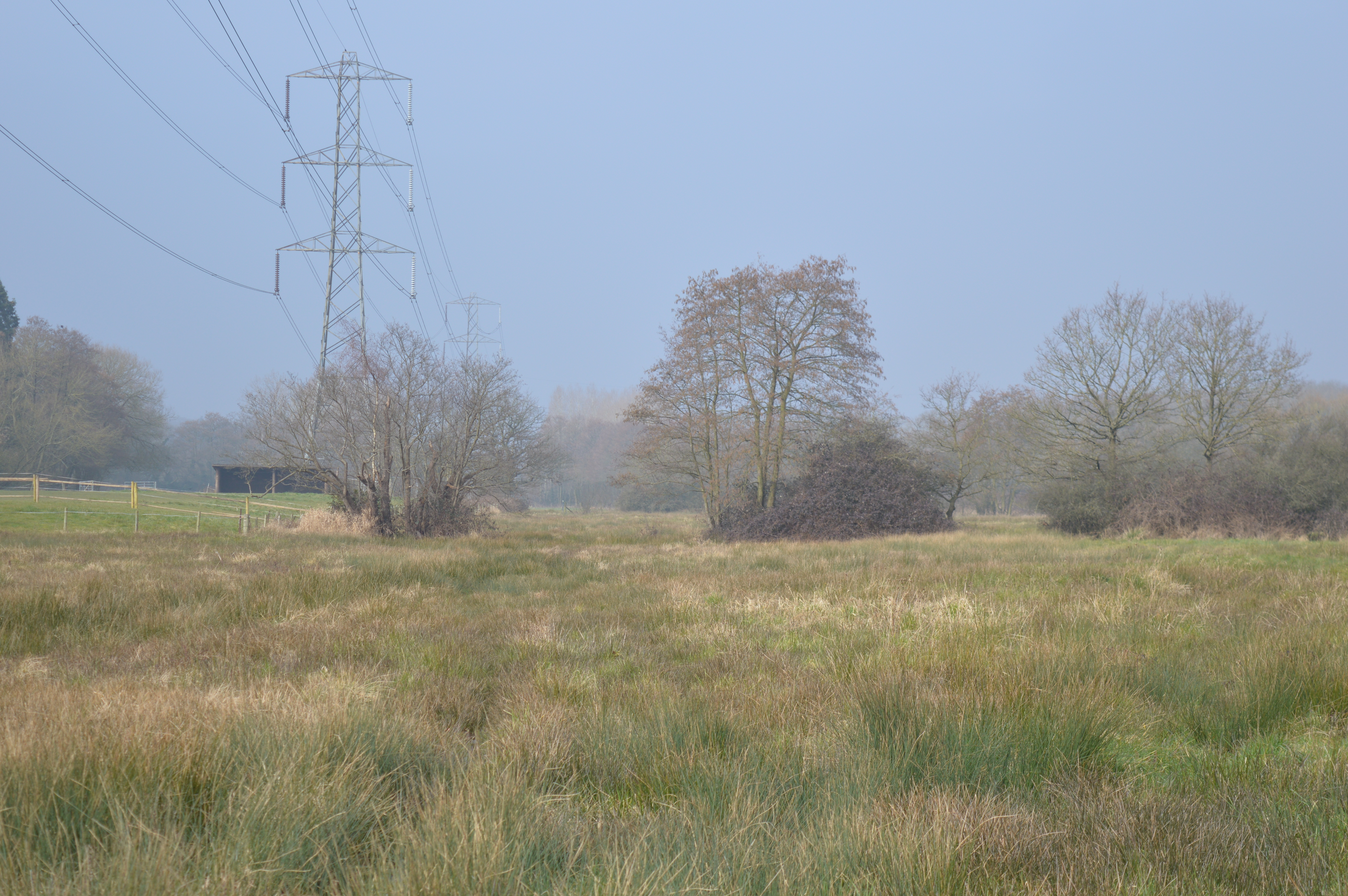 Kingcup Meadows, part of Kingcup Meadows and Oldhouse Wood Site of Special Scientific Interest in Denham, Buckinghamshire